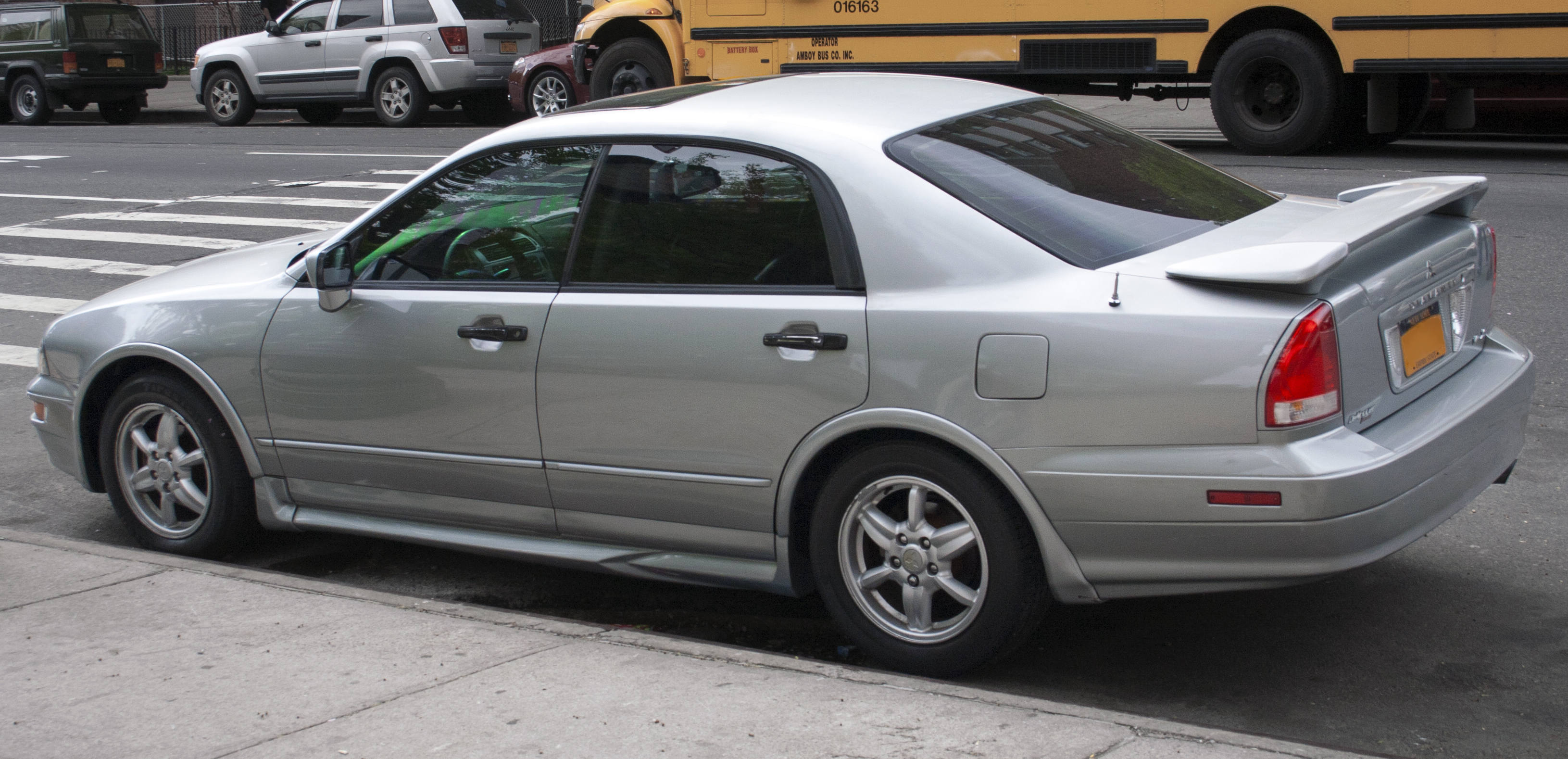 2003 Mitsubishi Diamante VR-X, a "sporting" version featuring lots of plastic cladding and no less than 5 (five) extra horsepower.